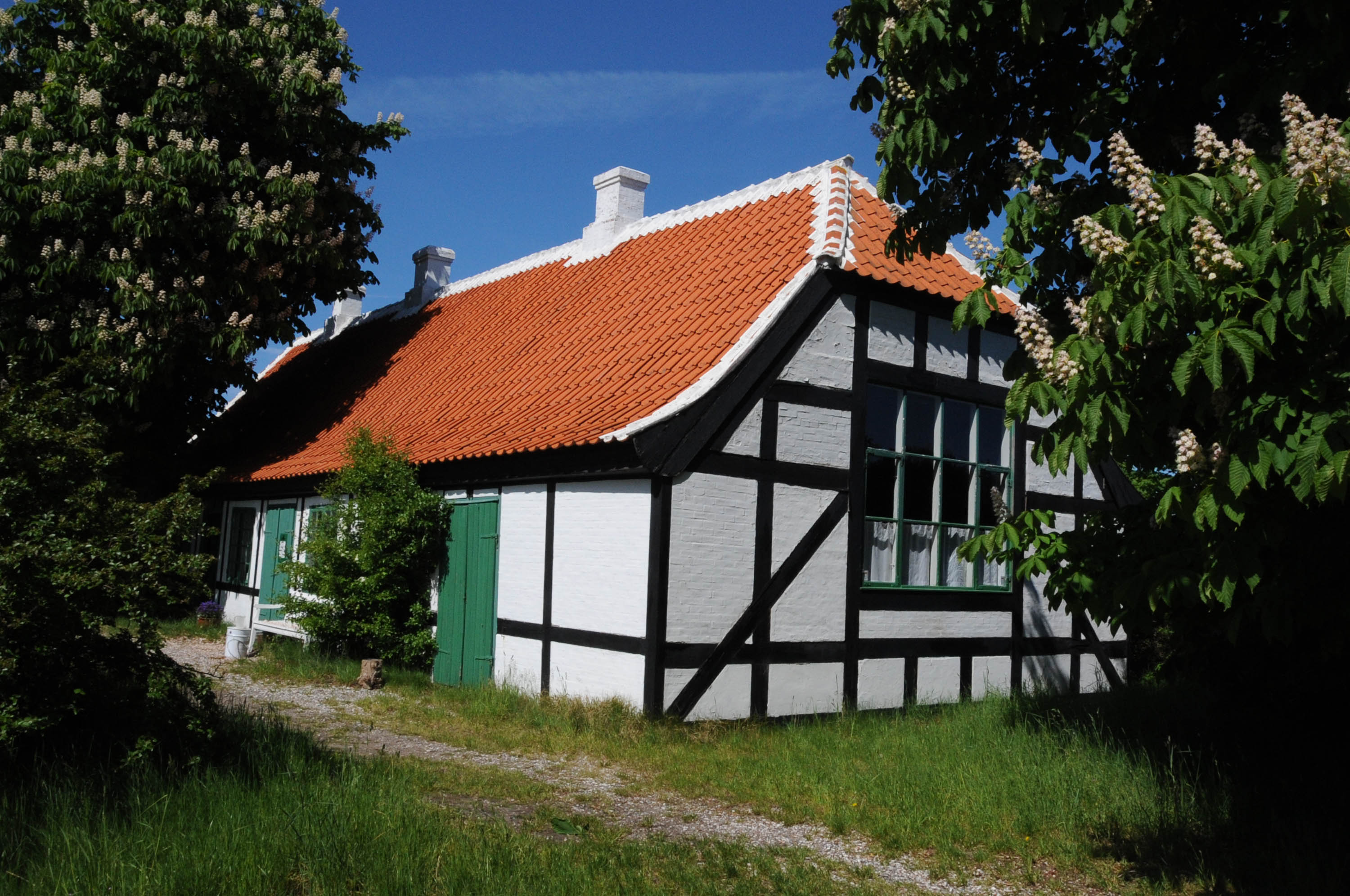 HOLGER DRACHMANN WAS A THE POET; HE DIEDIN 1908 IN COPENHAGEN AND IS BURIED IN THE SAND DUNES AT GRENEN, NEAR SKAGEN. DRACHMANN IS ONE OF THE MOST POPULAR DANISH POETS OF MODERN TIME THOUGH MUCH OF HIS WORK IS NOW FORGOTTEN.